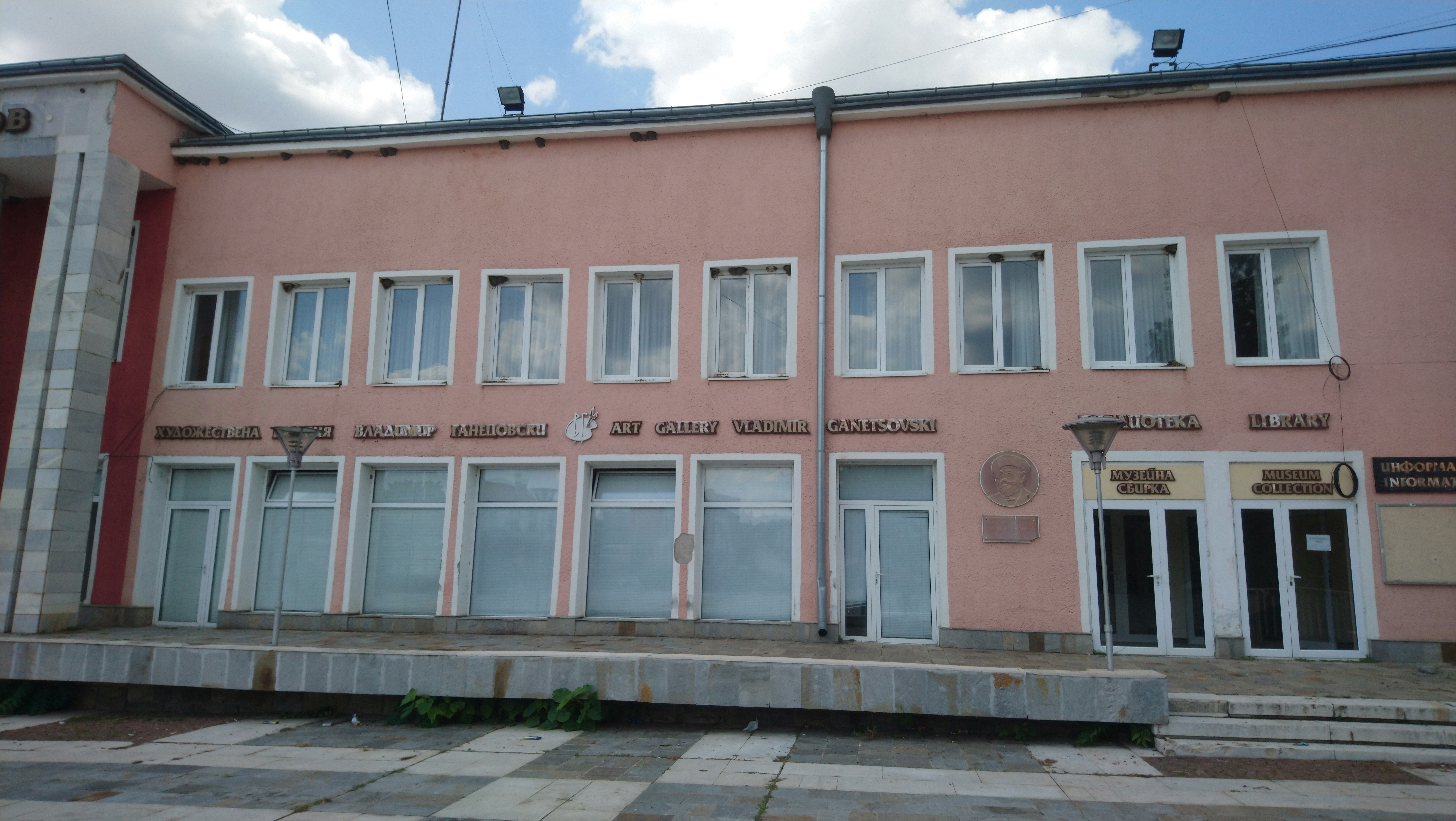 Vladimir Ganetsovski art gallery, library and musem in Borovan, Bulgaria.